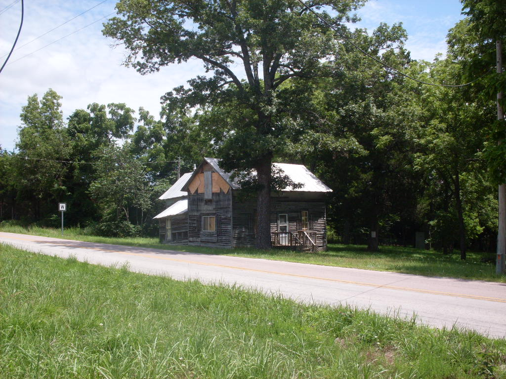 The old Richville store building on Missouri State Route W, southeastern Douglas County, Missouri - Richville, Douglas County, Missouri